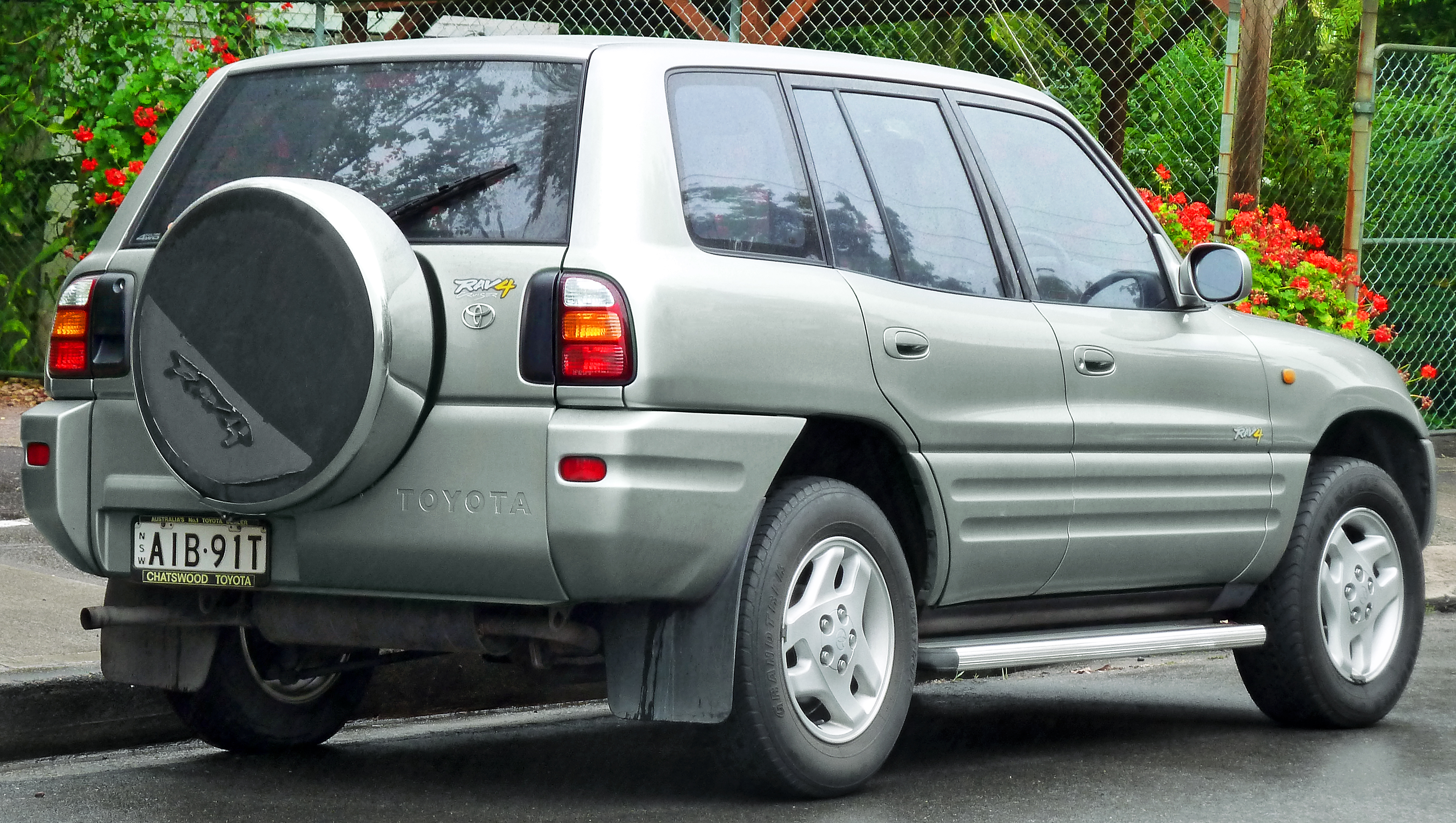 1999 Toyota RAV4 (SXA11R) Cruiser wagon. Photographed in Roseville, New South Wales, Australia.